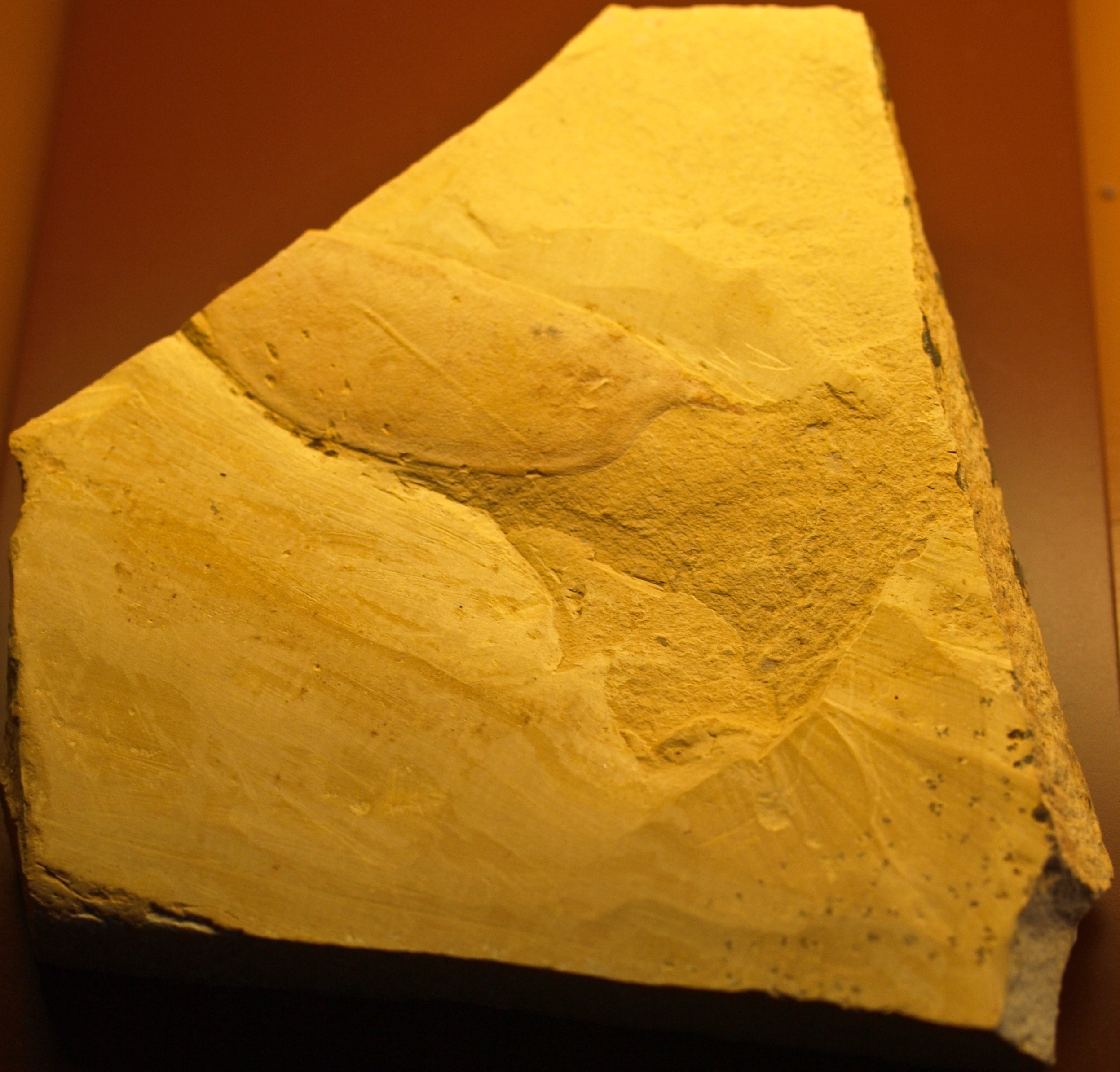 An example fossil of Isoxys paradoxus, on display at the Naturhistorisches Museum, Vienna.